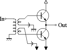 Analog single-ended push-pull amplifier, with non-complementary device, schematic (Note: This is outline of principle, don't realize as is)